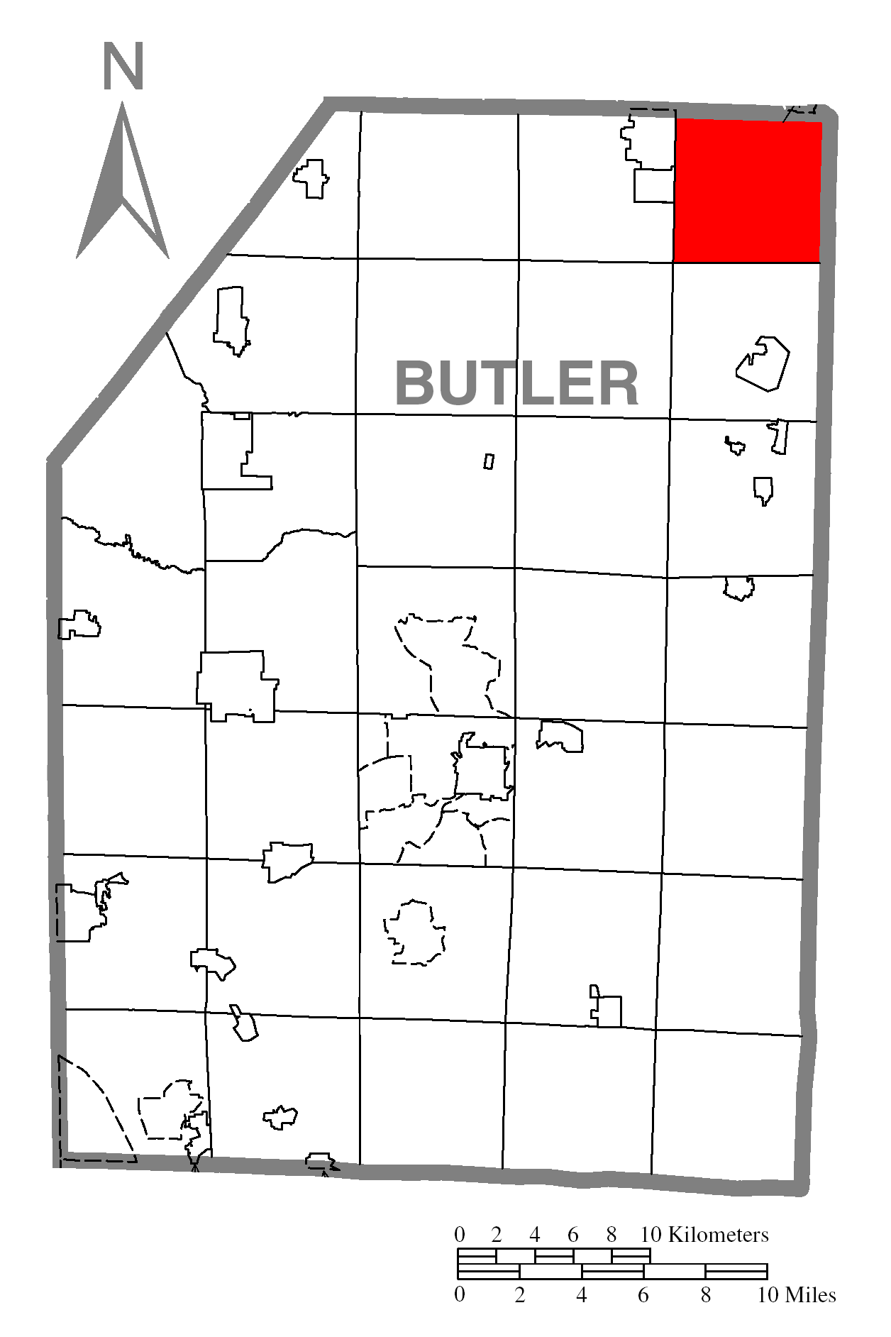 A map of Butler County showing Allegheny Township, Pennsylvania (alternate) highlighted on the map.